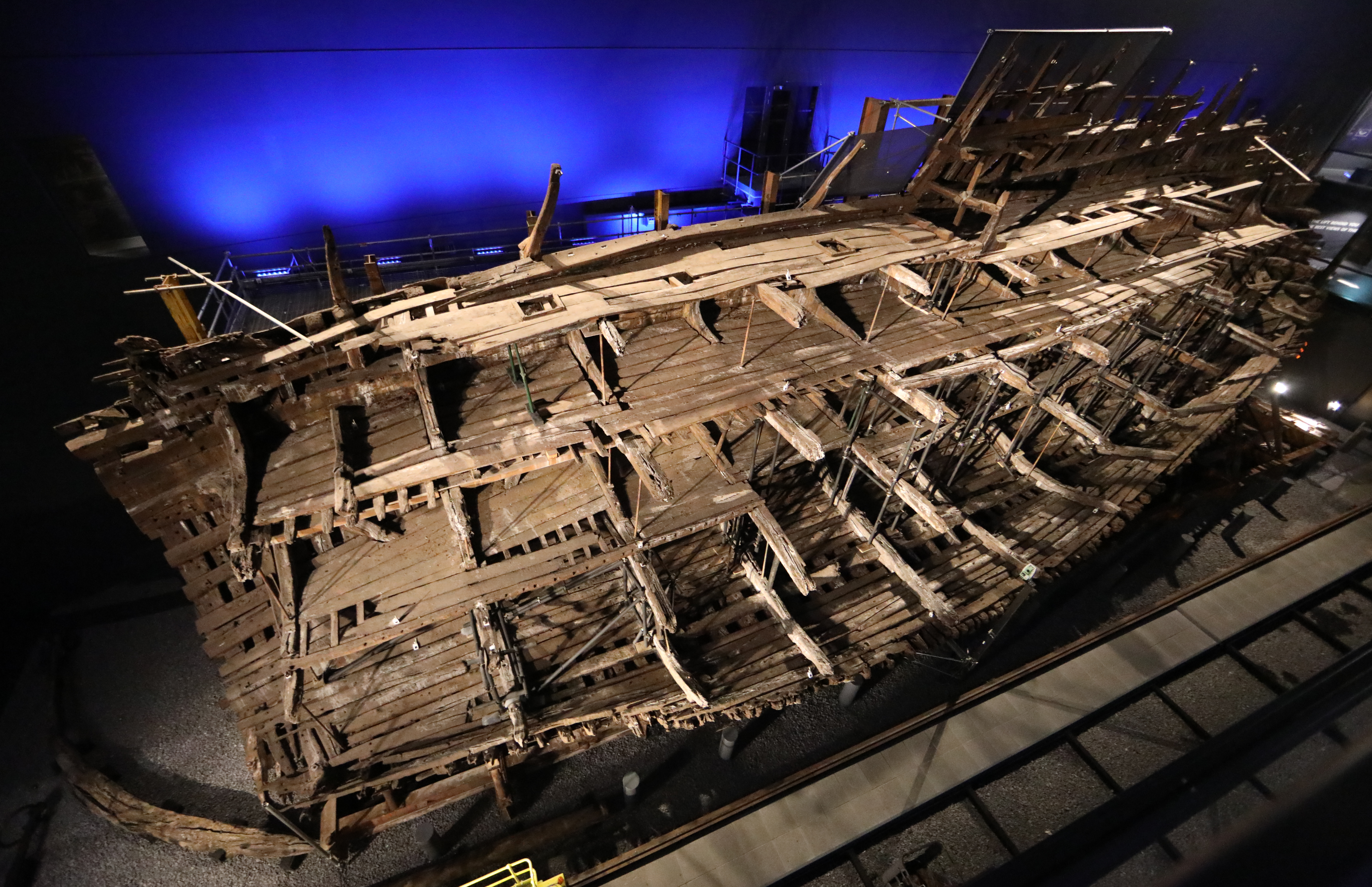 photo of the remains of the mary rose and support structure in 2019